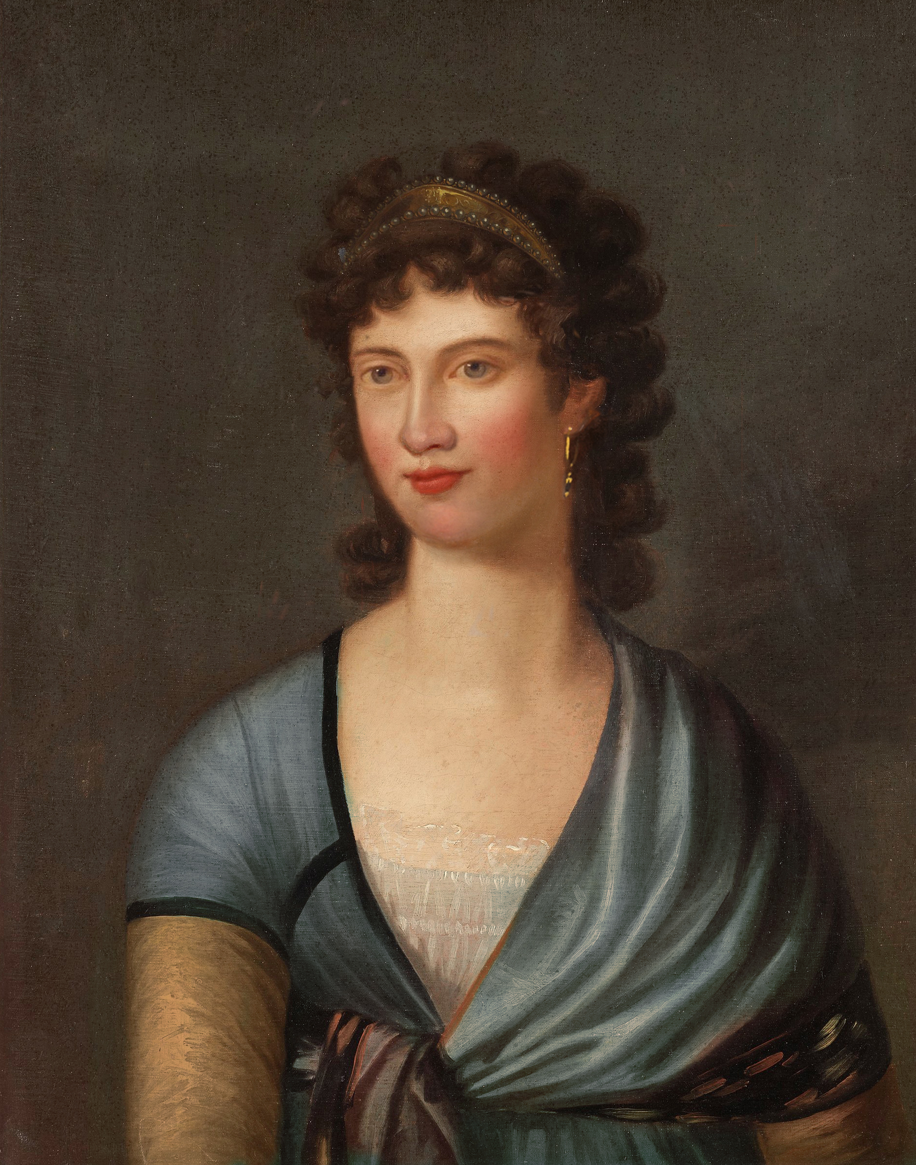 Portrait of Princess Amélie Louise of Arenberg (1789-1823), wife of Duke Pius August in Bavaria